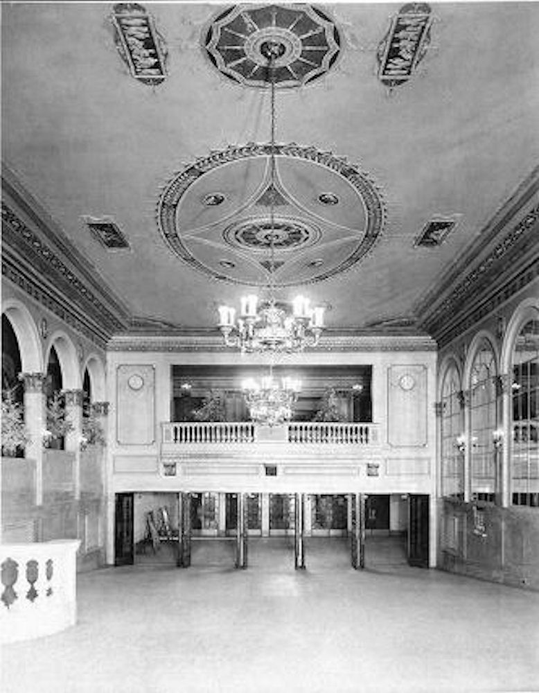 Colonial Theater Interior after 1963 renovation